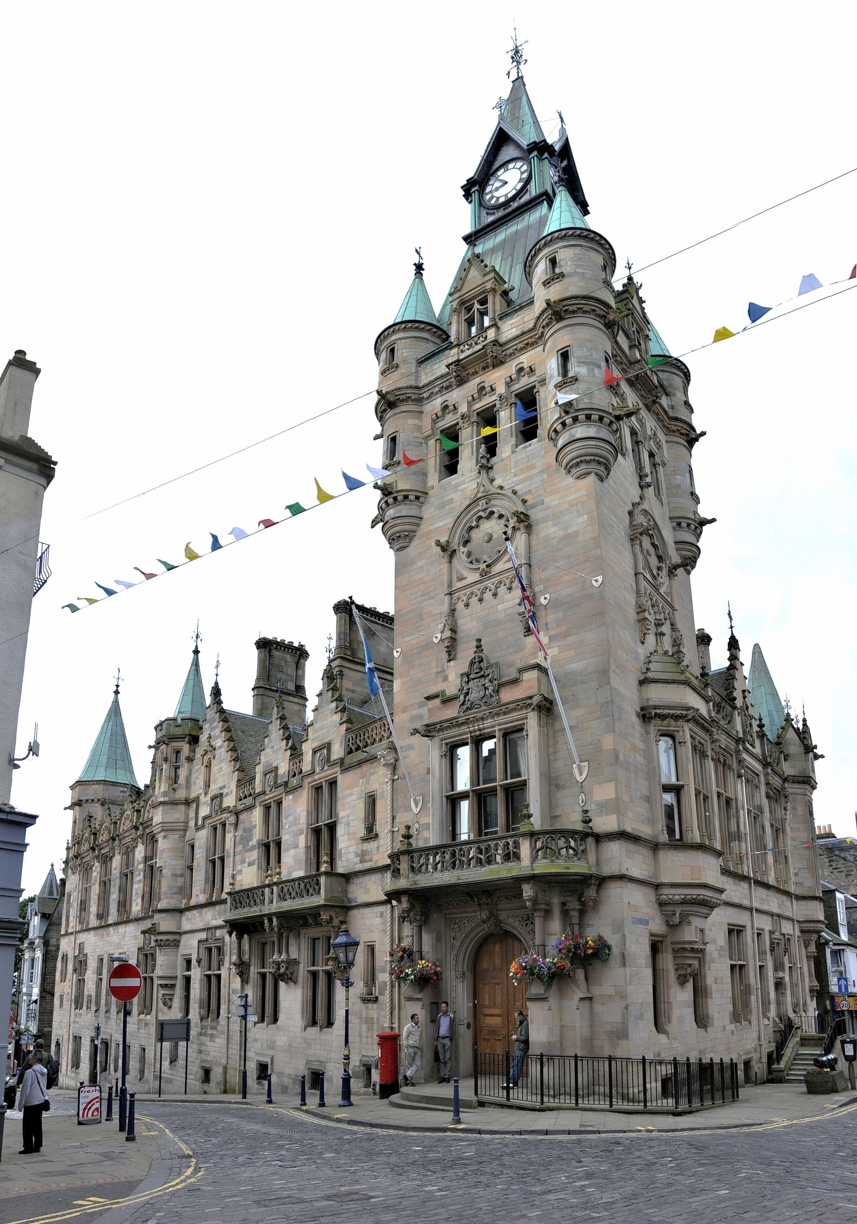 Dunfermline Town Hall